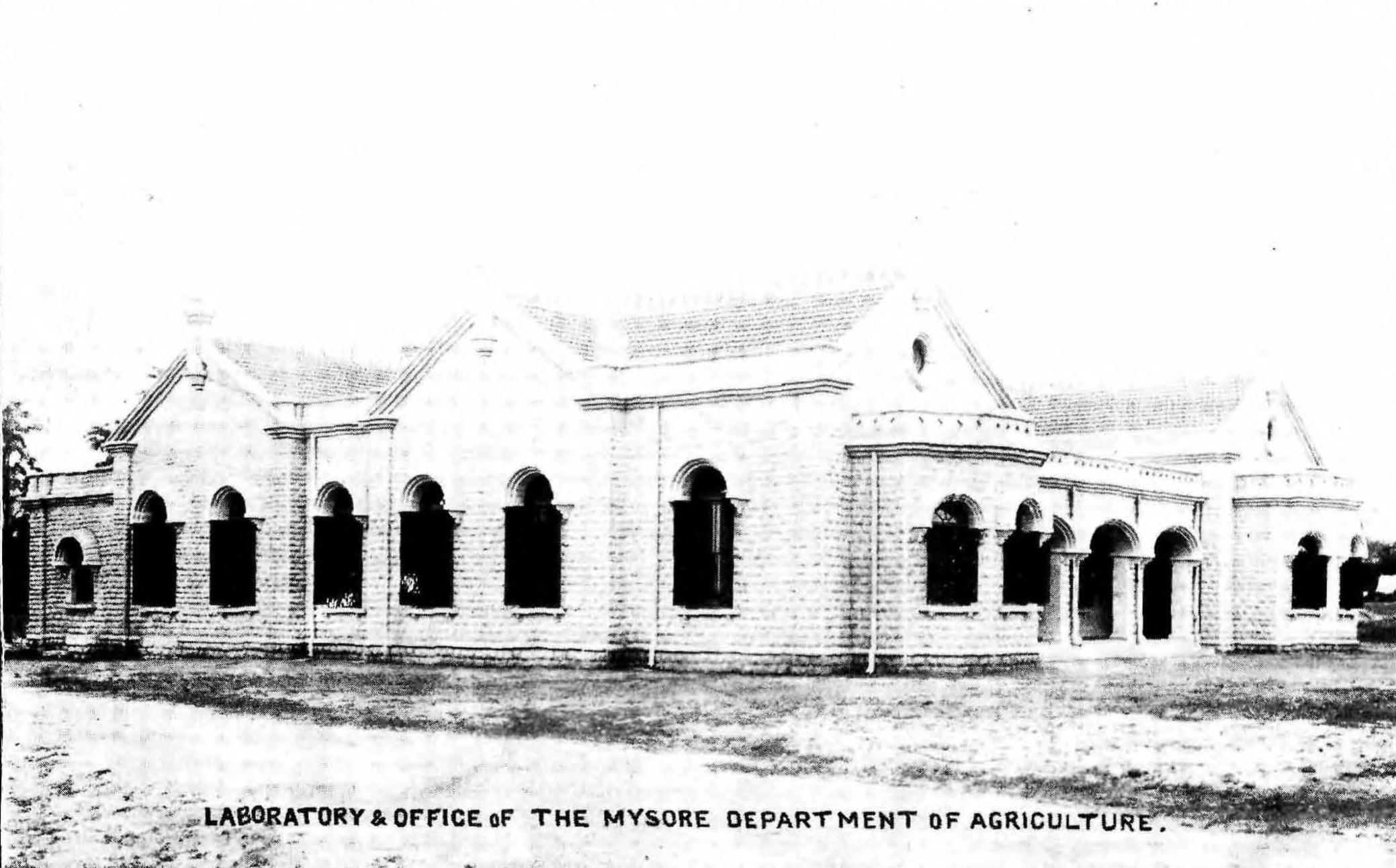 Mysore Agriculture Department office in 1926. Built in 1903 or so for the agricultural chemist, Adolf Lehmann in Bangalore. Building plan at File:Agri_department_Bangalore_1904.jpg